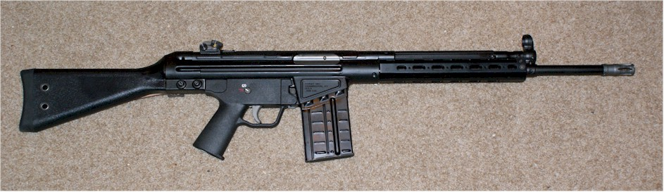 PTR-91K Carbine